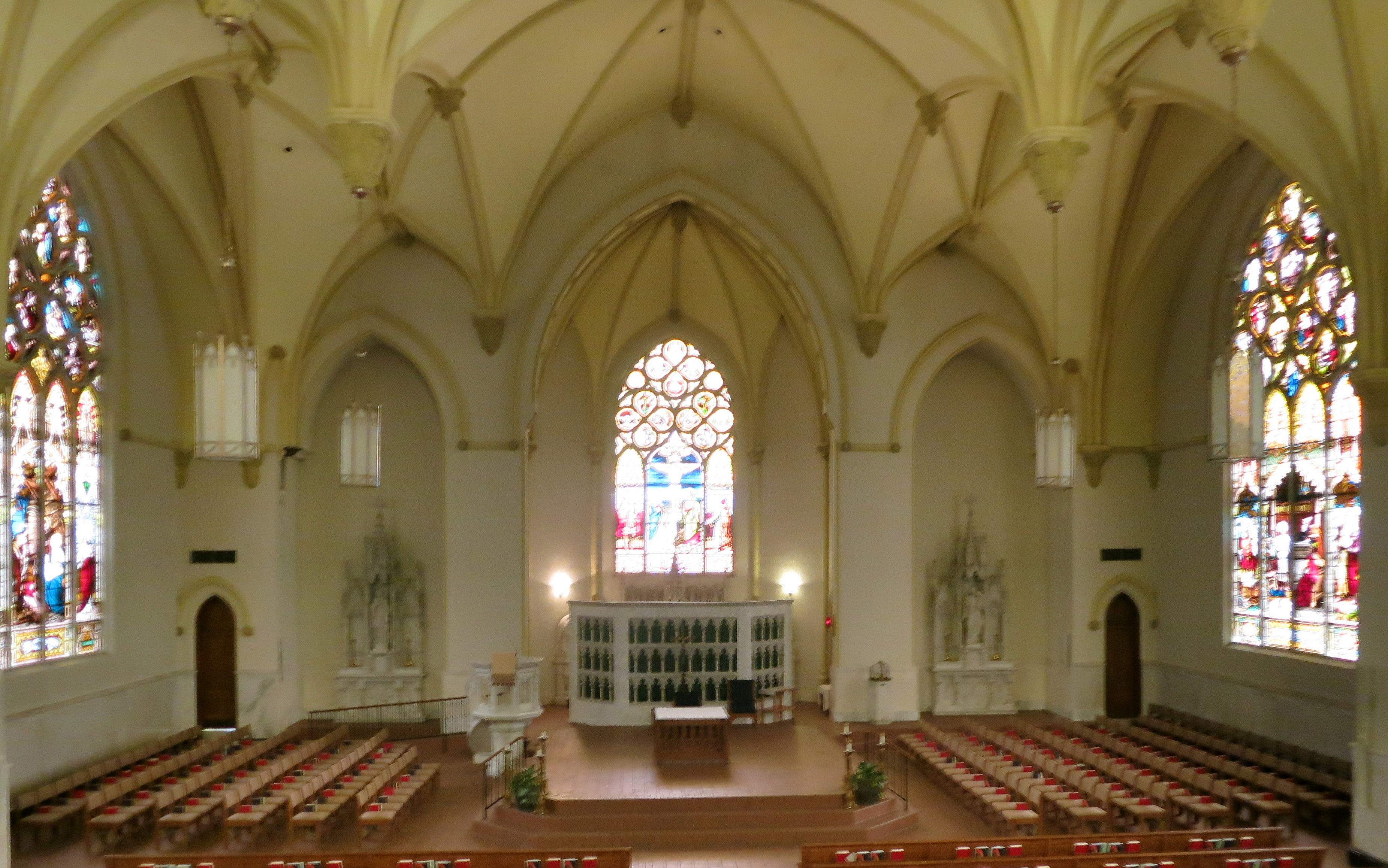 Saint Raphael Catholic Church (Springfield, Ohio) - view from the loft